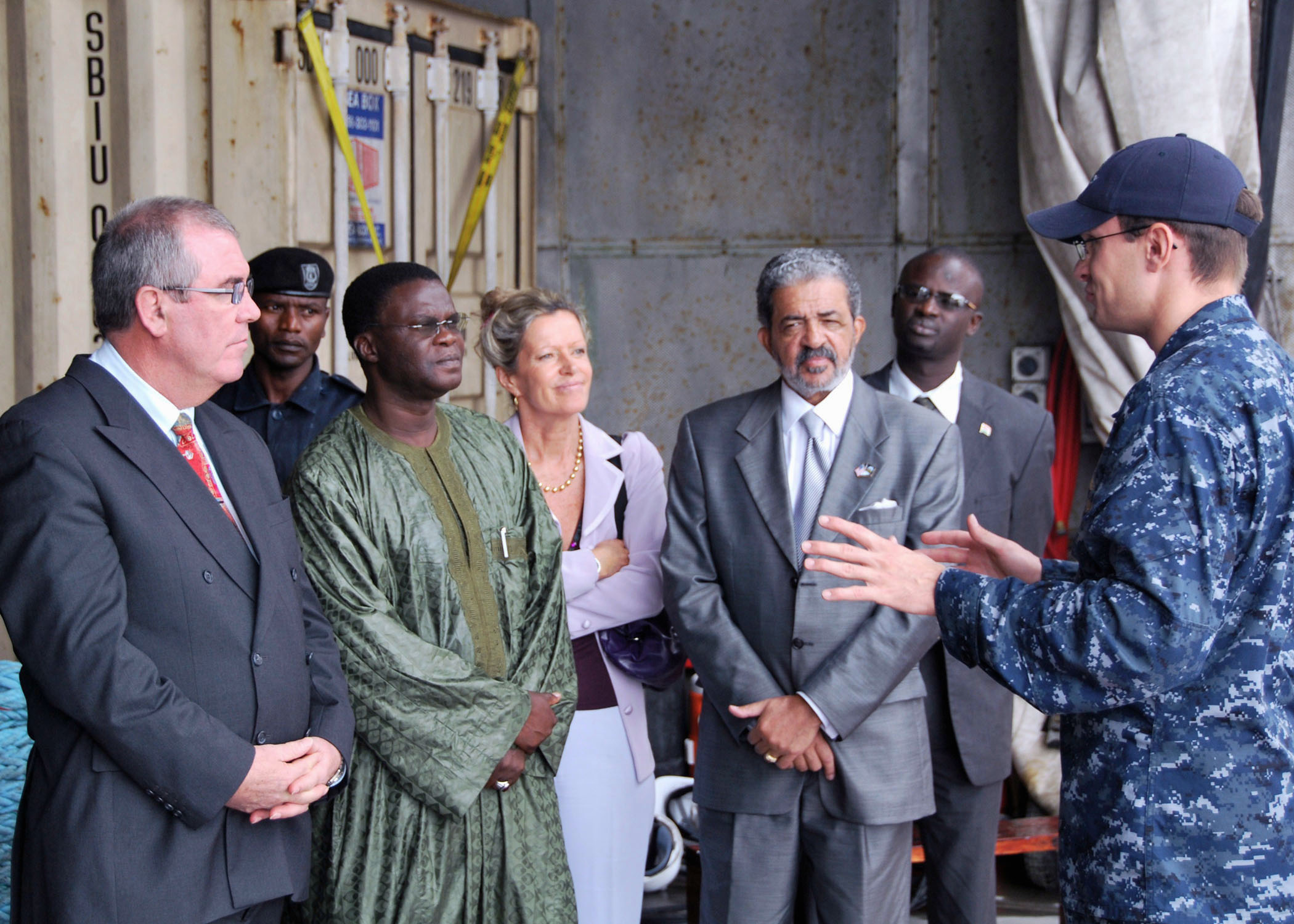 BANJUL, Gambia (Sept. 17, 2009) Philip Sinkinson, British High Commisioner to the Republic of the Gambia, left, Dr. Ousman Jammeh, Gambian Minister of Foreign Affairs, Ms. Danielle Roban, French Charge d'Affaires to Gambia, and United States Ambassador to the Republic of Gambia the Honorable Barry L. Wells, tour Africa Partnership Station Swift (HSV-2) with Lt.j.g. Matthew Goetz, right, operations officer of the shipaboard. Africa Partnership Station is an international initiative under Commander, U.S. Naval Forces Europe and Commander, U.S. Naval Forces Africa to enhance maritime safety and security on the African continent. (U.S. Navy photo by Mass Communication Specialist 1st Class Dan Meaney/Released)